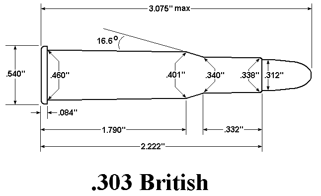 .303 British cartridge dimensions